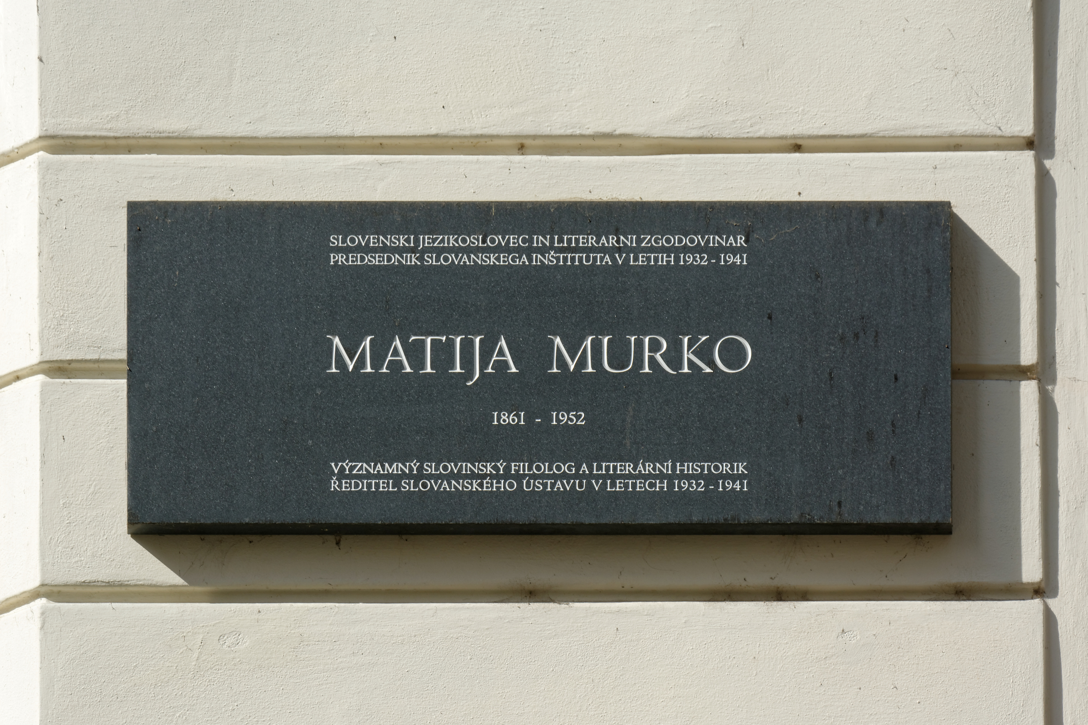 Matija Murko memorial plaque, Prague, Valentinská 1.